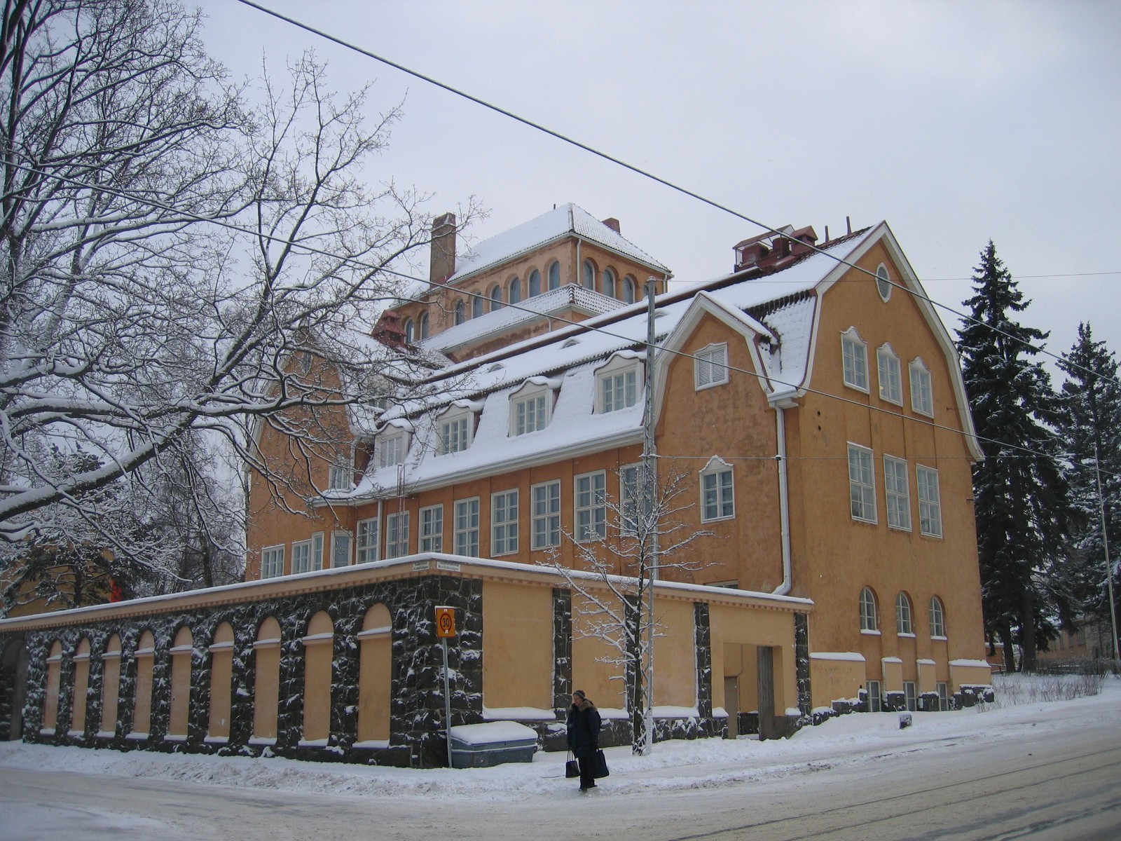 Munksnäs Pension in Munkkiniemi, Helsinki, Finland. Architect Eliel Saarinen, 1918.